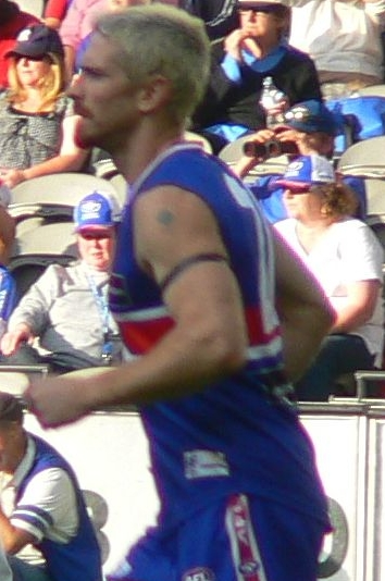 Jason Akermanis, AFL player